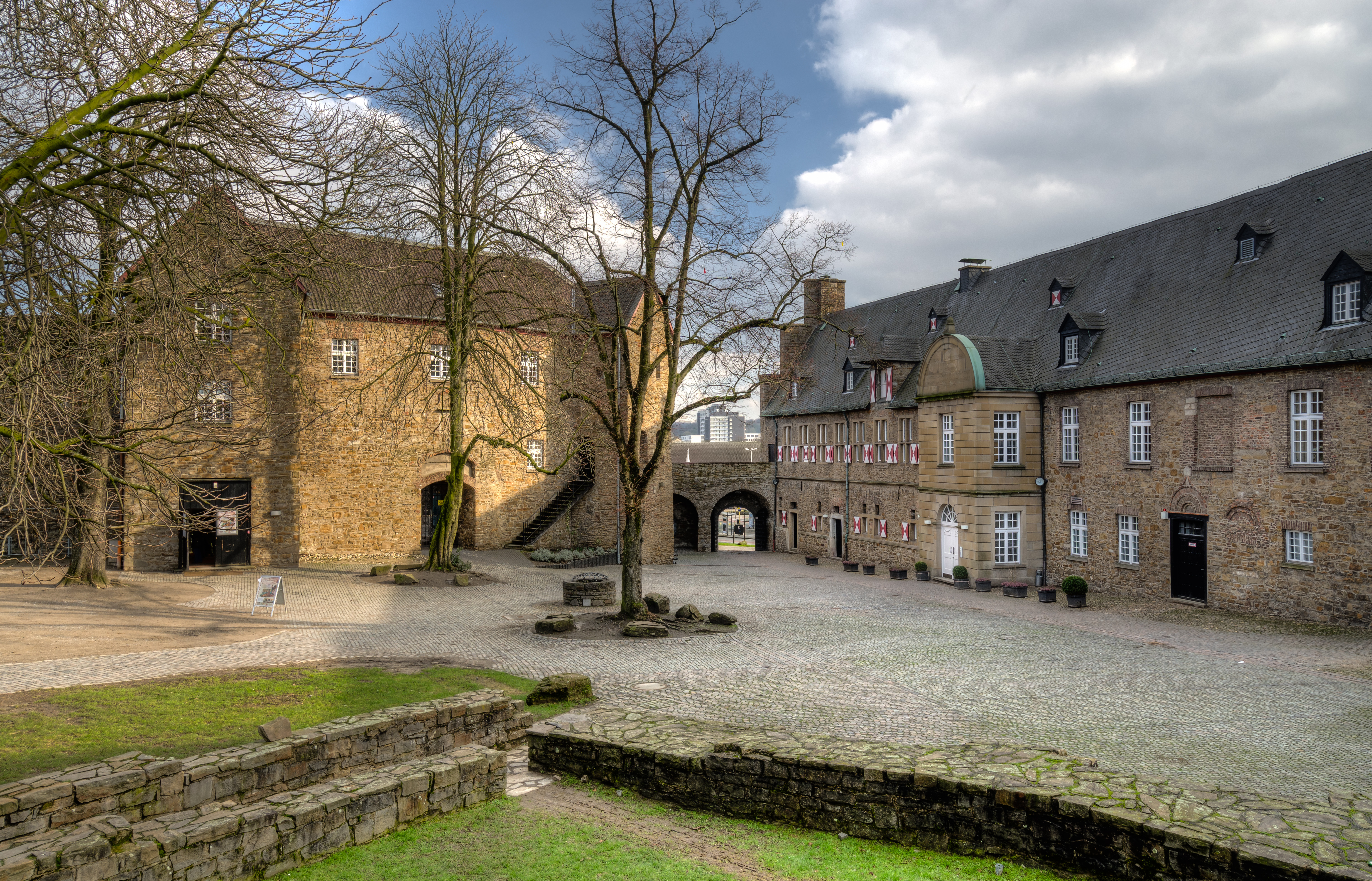 Interior courtyard of Schloss Broich / Broich Castle in Mülheim an der Ruhr. Left: "Hochschloss" (high castle) , right: west wing